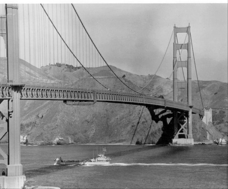 USS St. Francis River (LSMR-525) transiting under the Golden Gate Bridge during sea trials